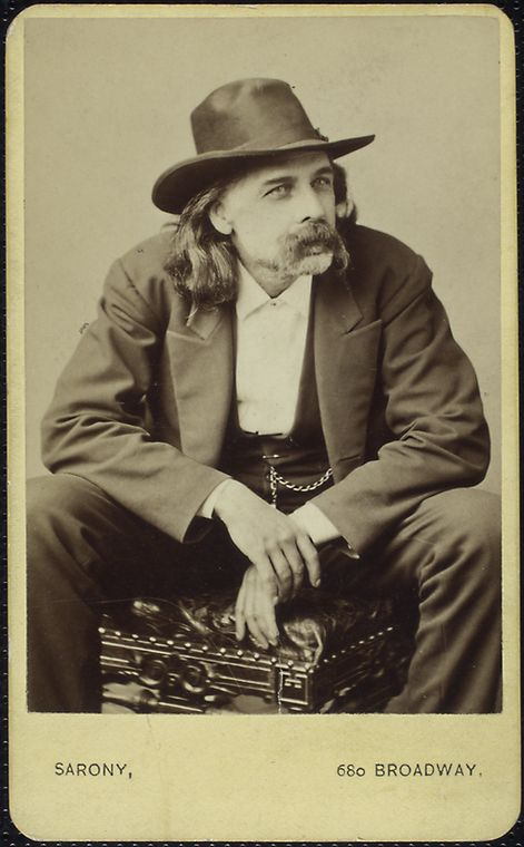 Josh Billings (Image Title [Josh Billings (Henry Wheeler Shaw).] Creator Sarony (New York, N.Y.) -- Photographer Medium Albumen prints Specific Material Type Photographs Item Physical Description 10.5 x 6.1 cm Item/Page/Plate 34 X33 Source Berg Collection portrait file. / Josh Billings (Henry Wheeler Shaw) Location Stephen A. Schwarzman Building / Henry W. and Albert A. Berg Collection of English and American Literature Digital ID 483299 Record ID 300212 Digital Item Published 2-20-2004; updated 5-18-2009)